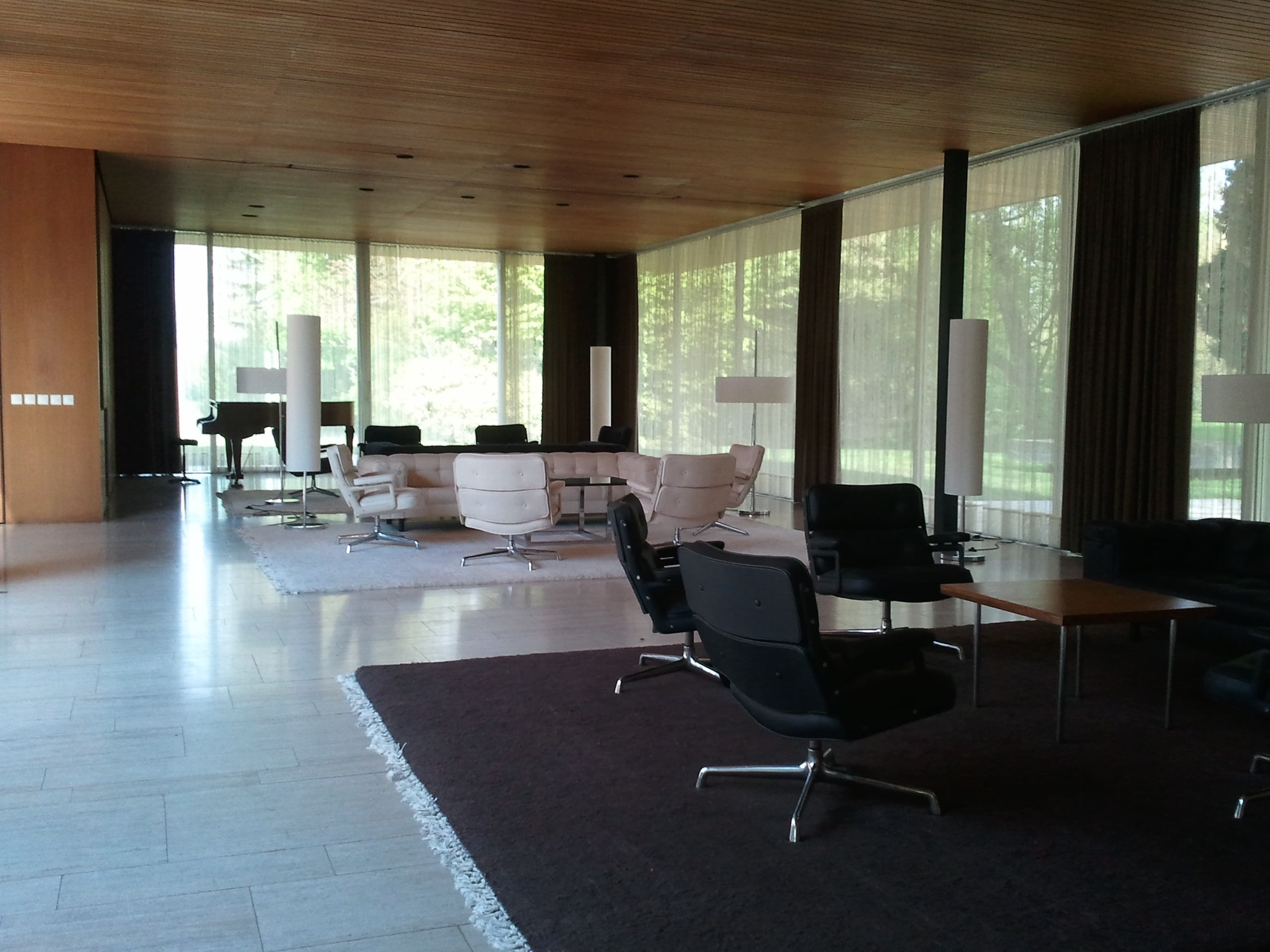 Suite in the Kanzlerbungalow in Bonn, Germany